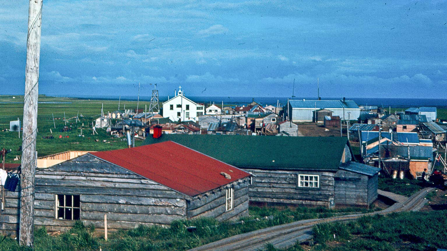 Looking South Over Hooper Bay